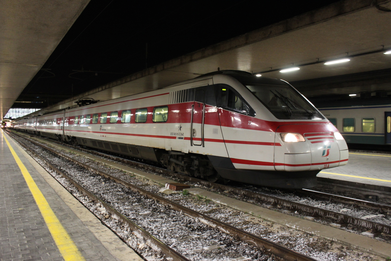 FS ETR 460 023 at Roma Termini train station.